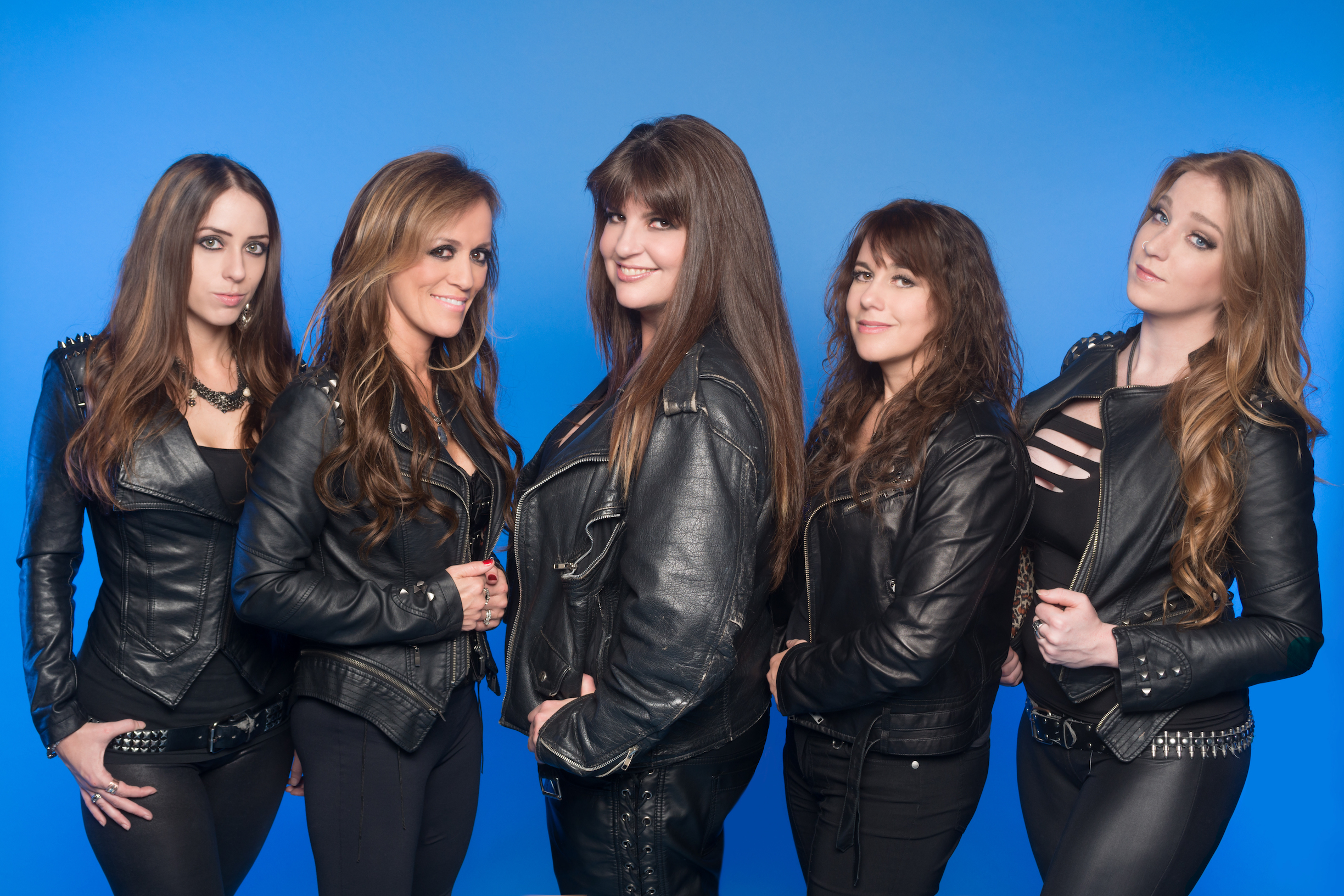 This is the 2016 lineup for the band, The Iron Maidens.